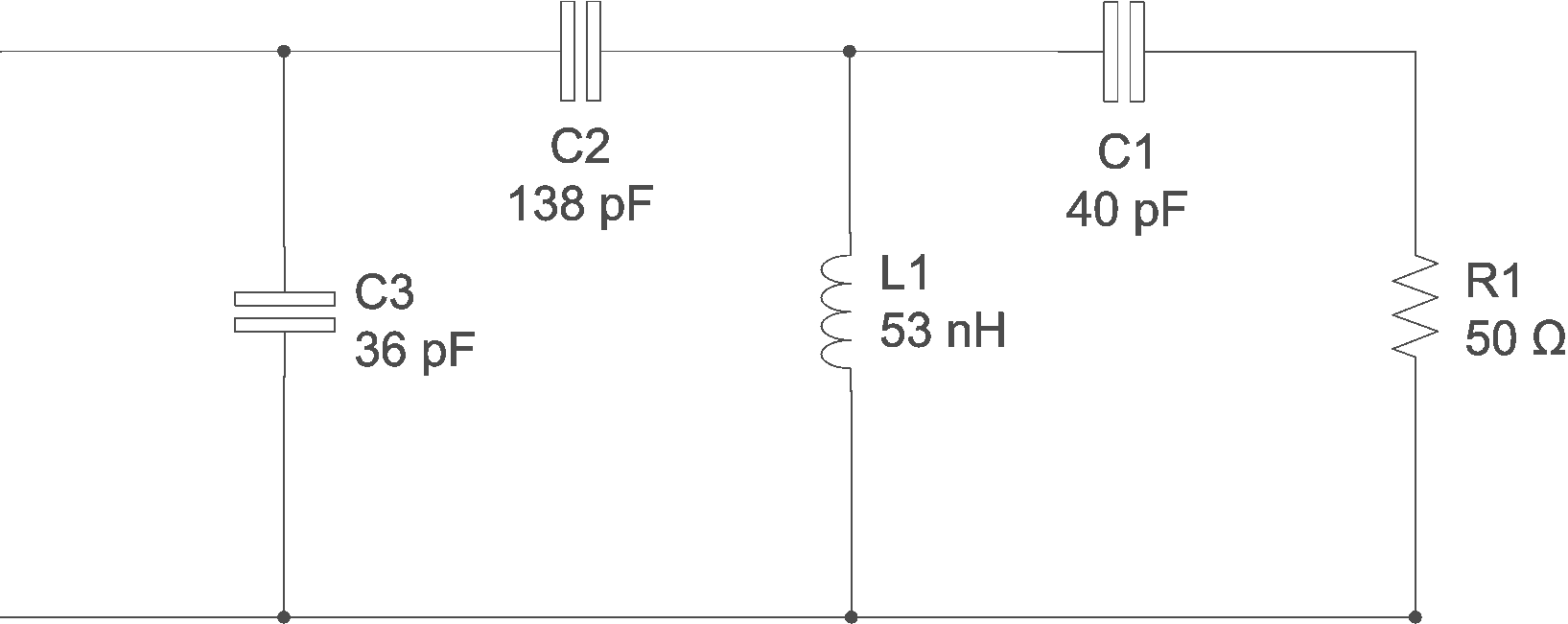 A lumped element circuit which may be analysed using a Smith Chart